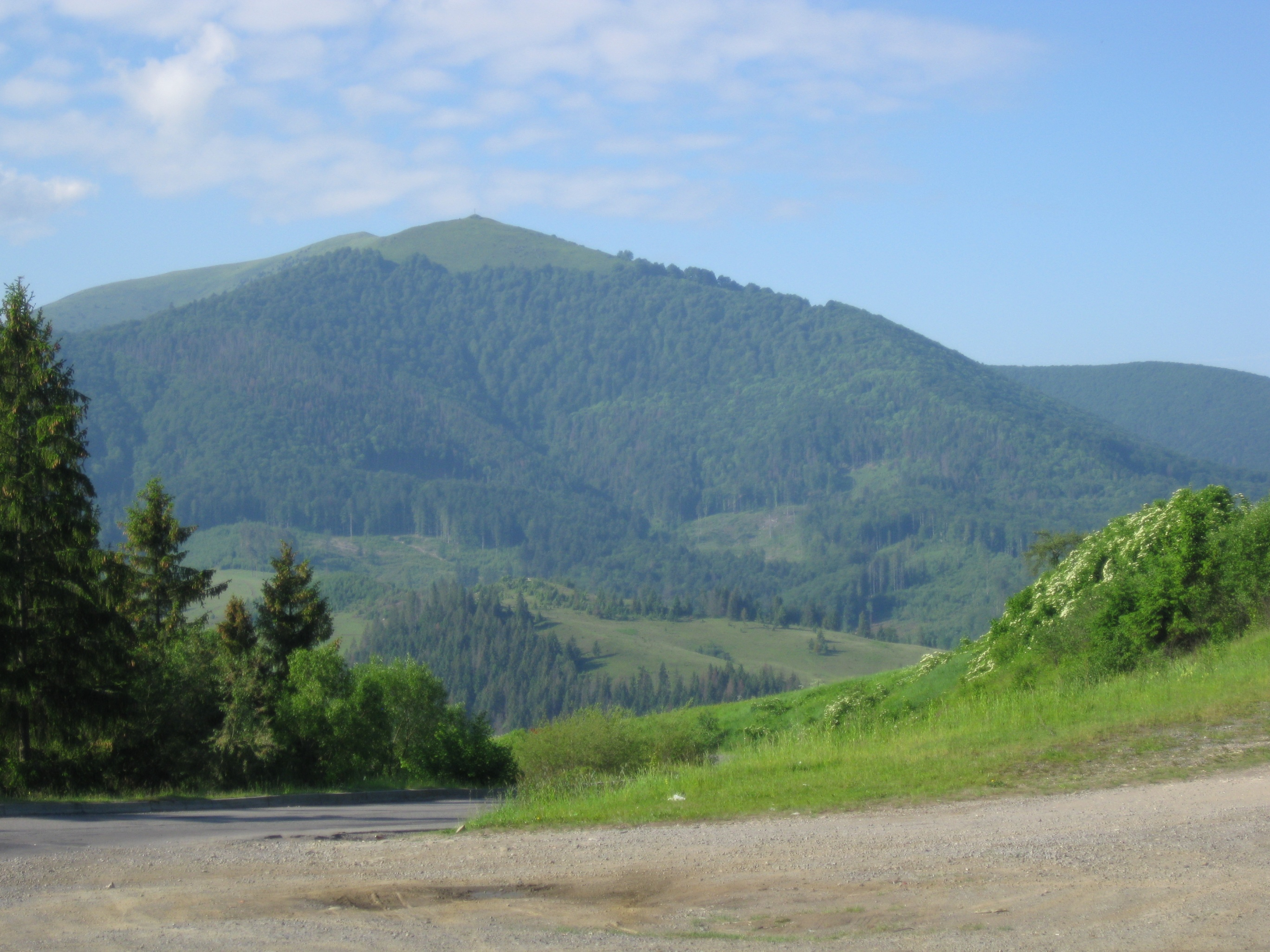 Mount Temnatyk. Menchyl Pass